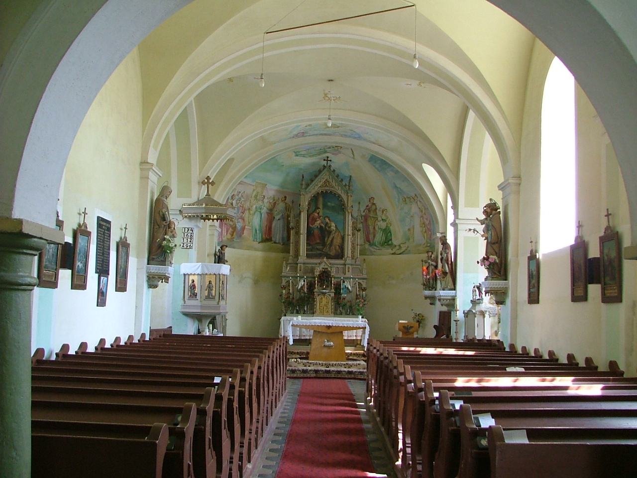 Inside the Catherine of Alexandria (roman catholic) church in Újkér This is a photo of a monument in Hungary, Identifier: 5164